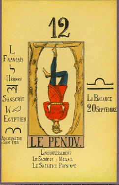 Page with tarot trump design from Papus: Le Tarot Divinatoire. Le Livre des Mystères et les Mystères du Livre. Clef du tirage des cartes et des sorts. Avec la reconstitution complète des 78 lames du Tarot Égyptien et de la méthode d'interprétation. Les 22 arcanes majeurs et les 56 arcanes mineurs. Libr. Hermétique, Paris 1909.